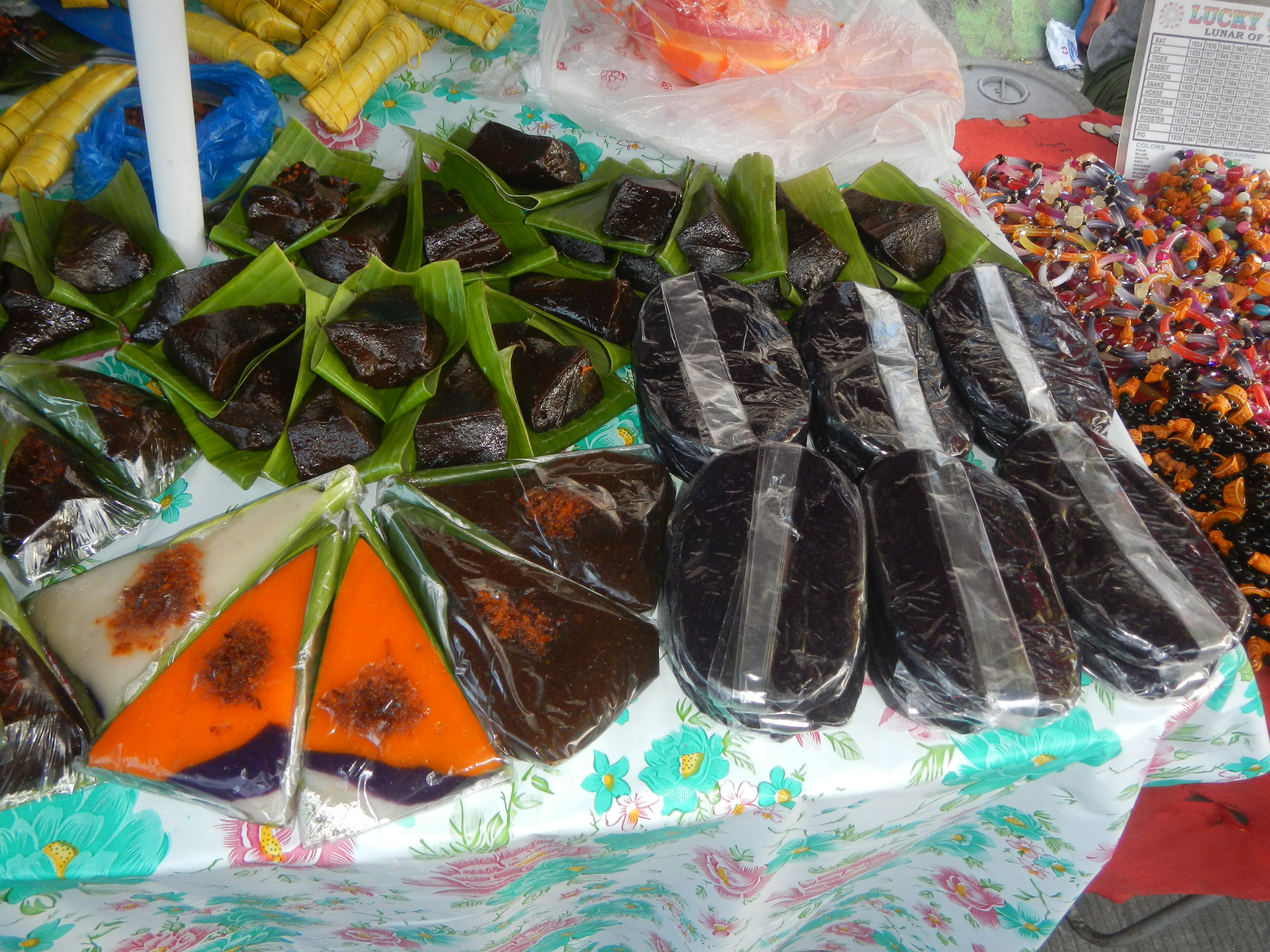 Torch of Freedom - 23,000 Guerrilleros Memorial (Bulacan Military Area, Bustos, Bulacan) November 30, 1973 Pasalubong (Pistang Bayan 1917-2017 Sentenaryo, Bustos, Bulacan - Philippine delicacies) in Beltran street corner Hilario Street Barangay Poblacion 14°57'20"N 120°54'34"E, Bustos, Bulacan (Note: Judge Florentino Floro, the owner, to repeat, Donor Florentino Floro of all these photos hereby donate gratuitously, freely and unconditionally all these photos to and for Wikimedia Commons, exclusively, for public use of the public domain, and again without any condition whatsoever).